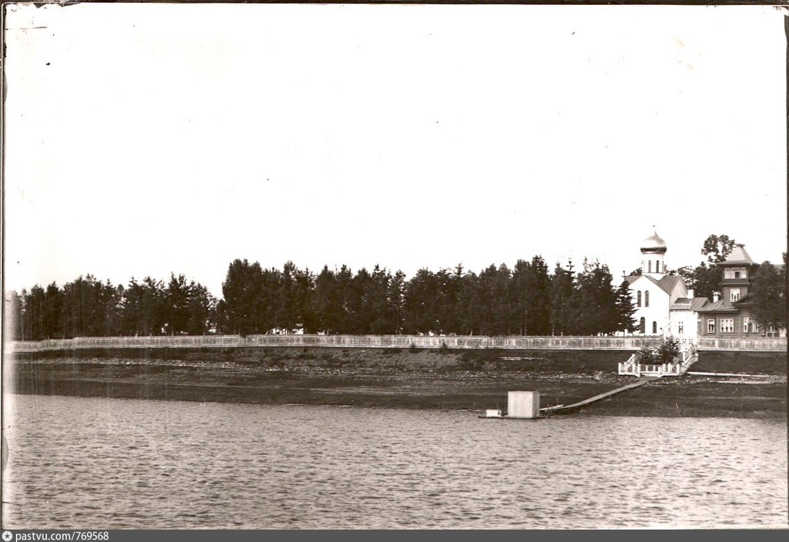 Bishop's manor, Veliky Novgorod. View from the Volkhov River.